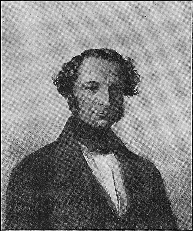 Baron Carl Theodor August Scheel-Plessen